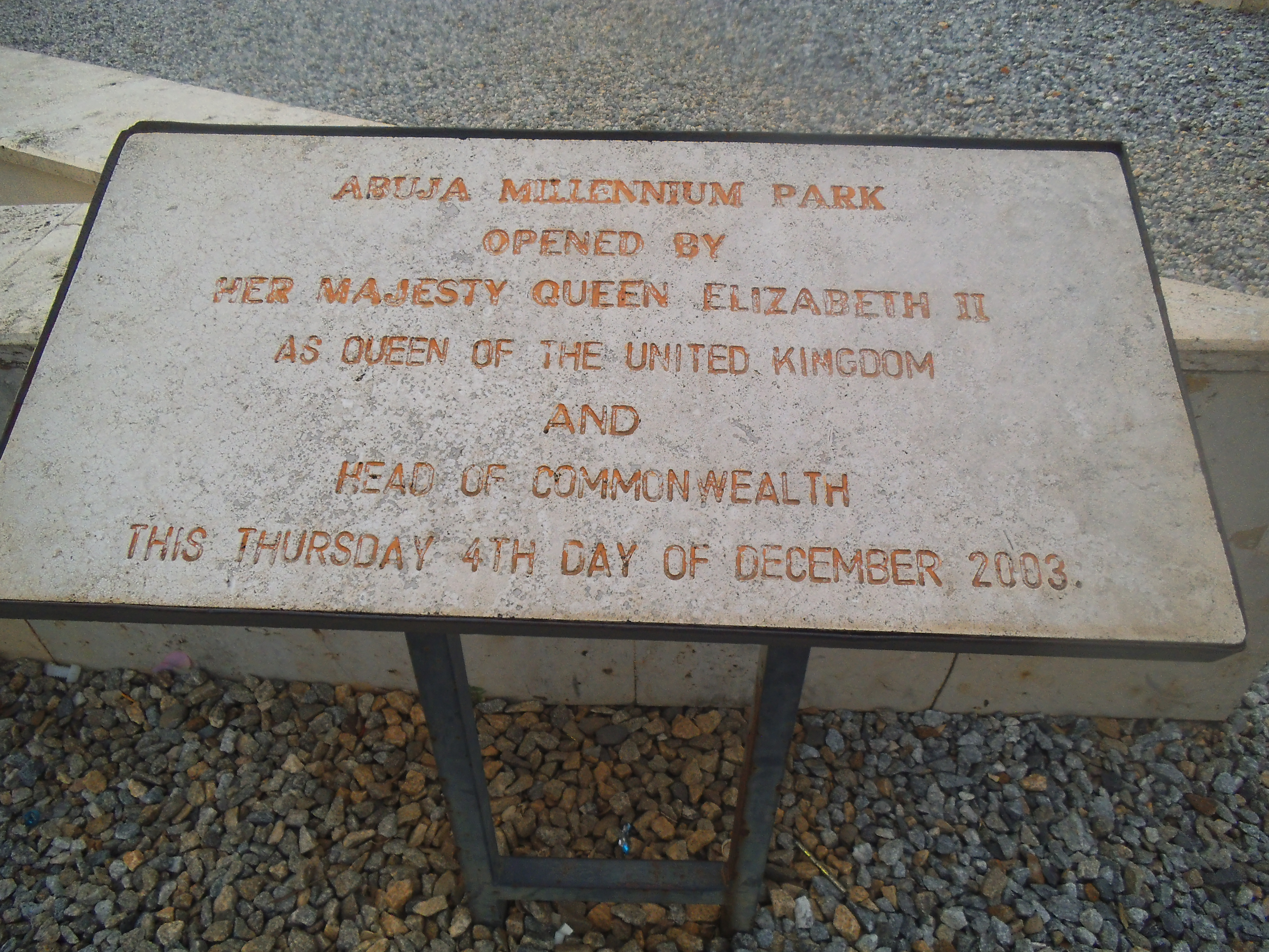 Commemoration sign in Abuja's Millenium Park.